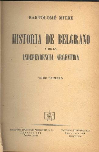 Book cover for "Historia de Belgrano y de la Independencia Argentina", written by Bartolomé Mitre. Published by "Editorial Juventud Argentina".